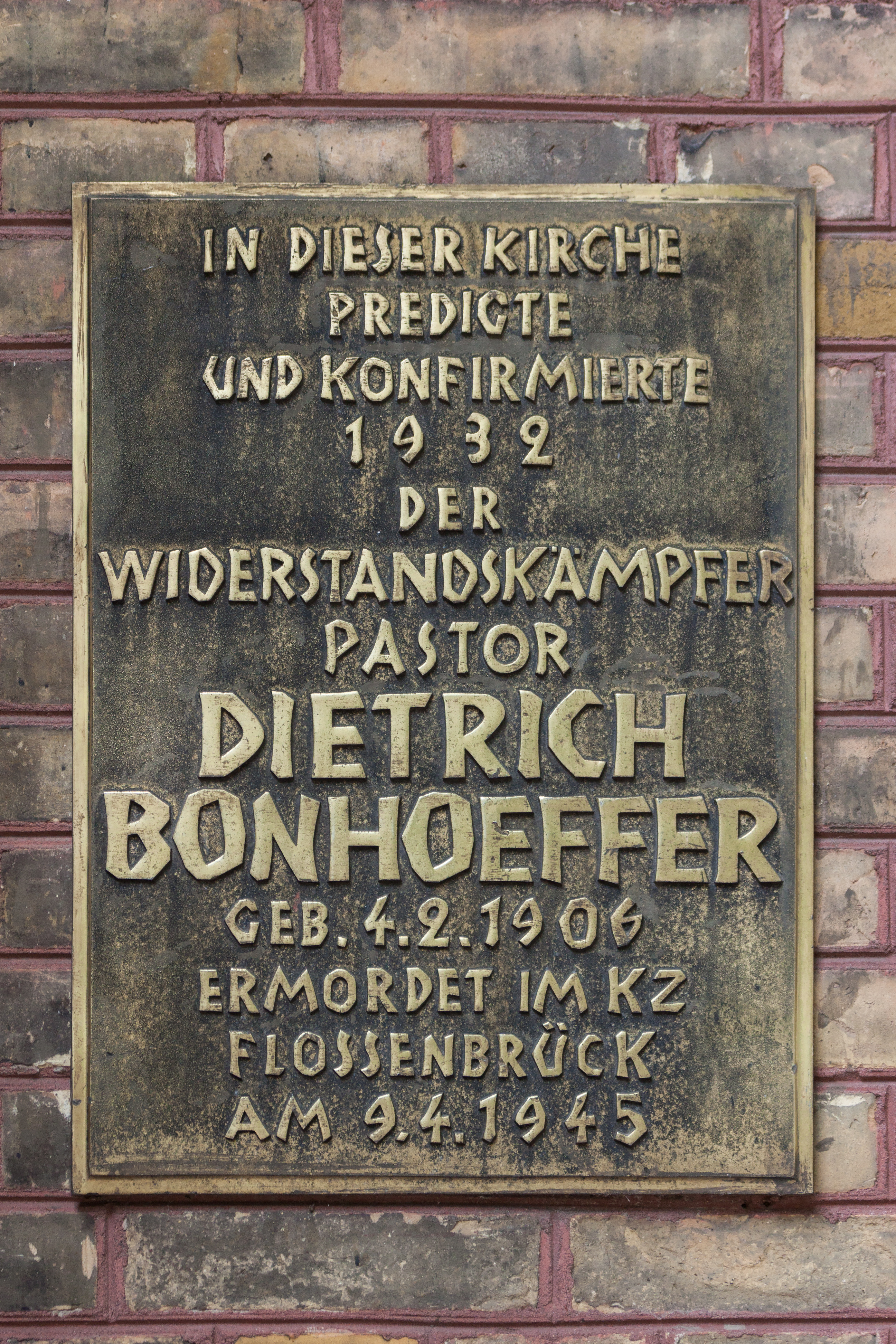 Memorial plaque for Dietrich Bonhoeffer at the Zionskirche in Berlin-Mitte.